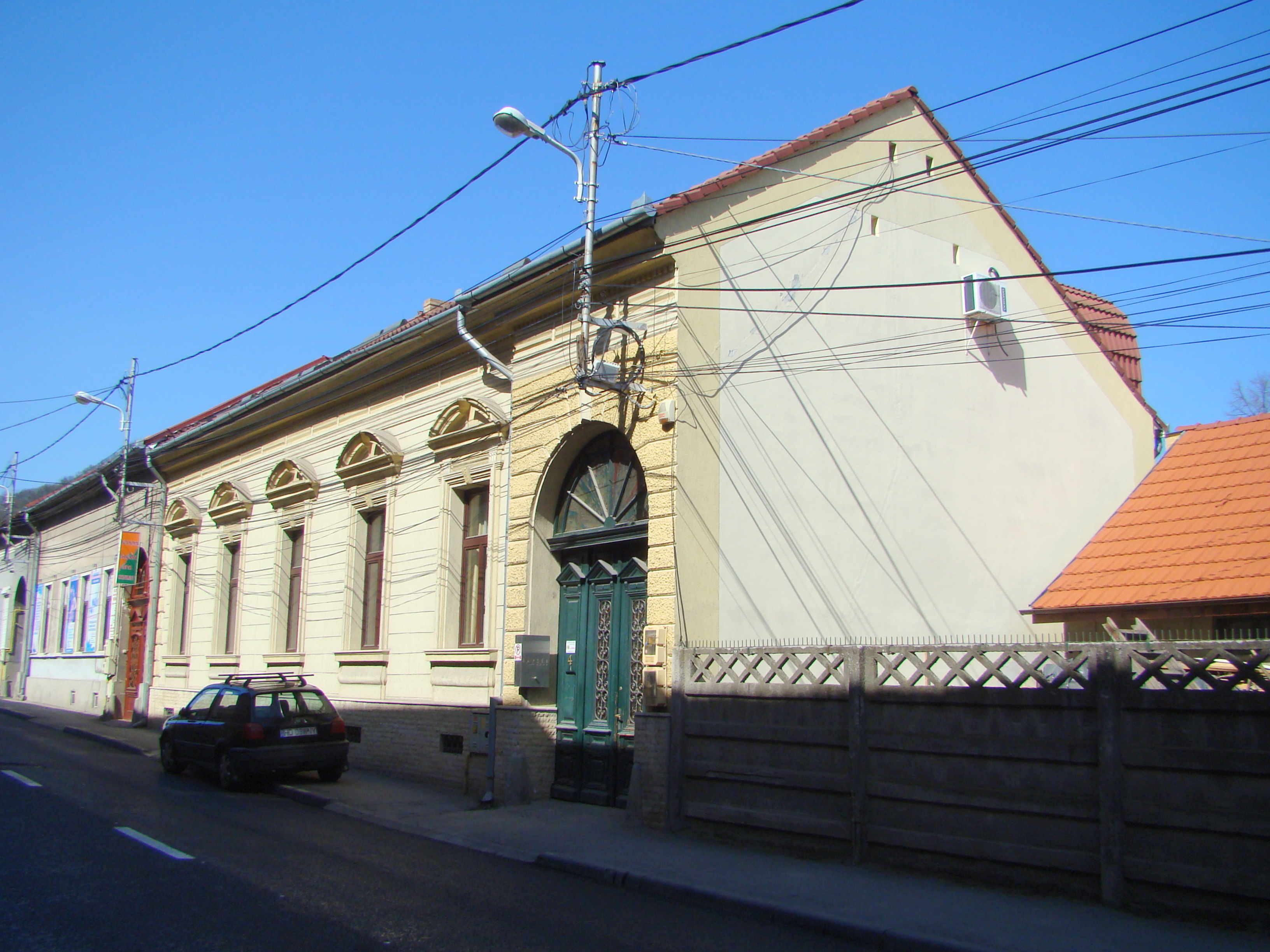 Lucian Blaga street in Deva, Hunedoara county, Romania